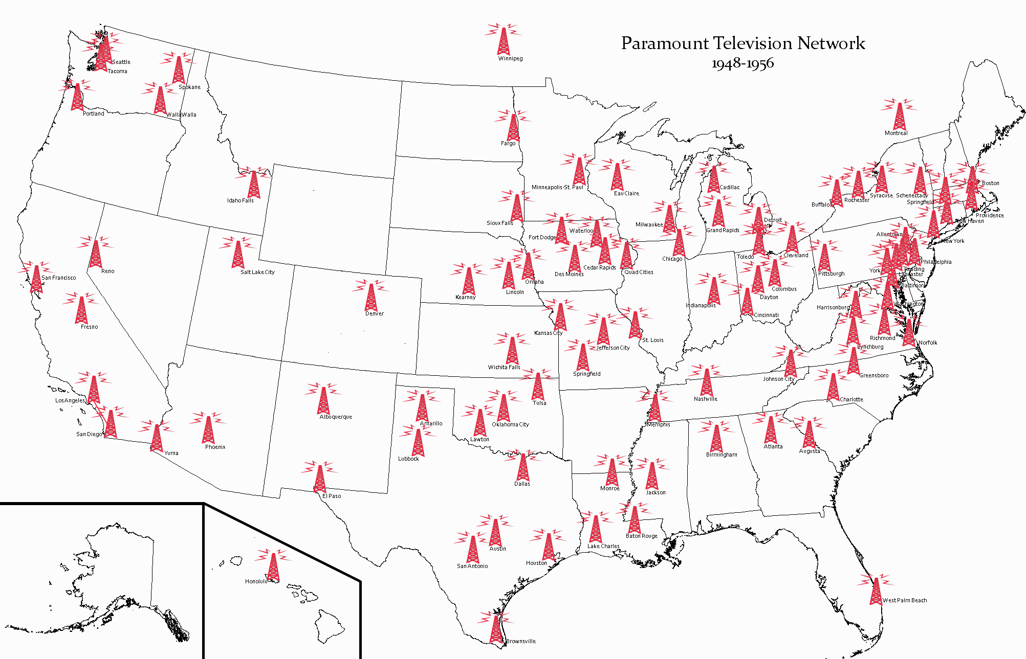 A map of the Paramount Television Network, showing affiliates in the United States and Canada. Most stations were affiliates of other television networks as well, and not all stations were affiliated with Paramount during the same years.